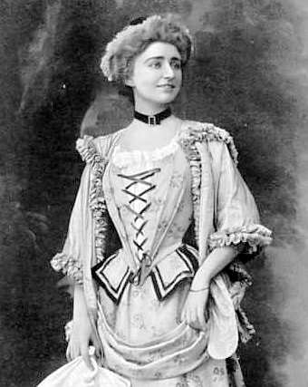 Geneviève Vix (1879-1939) in the title role of Massenet's Manon.